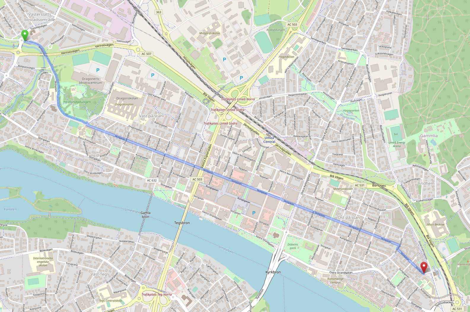 The length of Skolgatan (School Street) in central Umeå, Sweden.